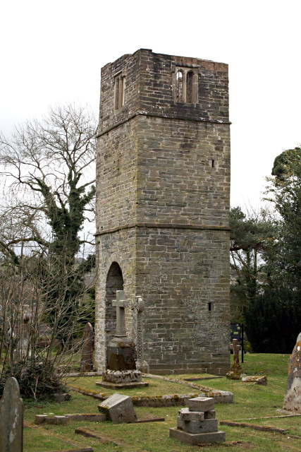 Berry Tower Berry Tower was originally constructed between 1501 and 1511 and formed part of a large chapel which has since disappeared. The cemetery which now surrounds the tower was established in the 19th century. Ruined tower surviving from Chapel of the Holy Rood.